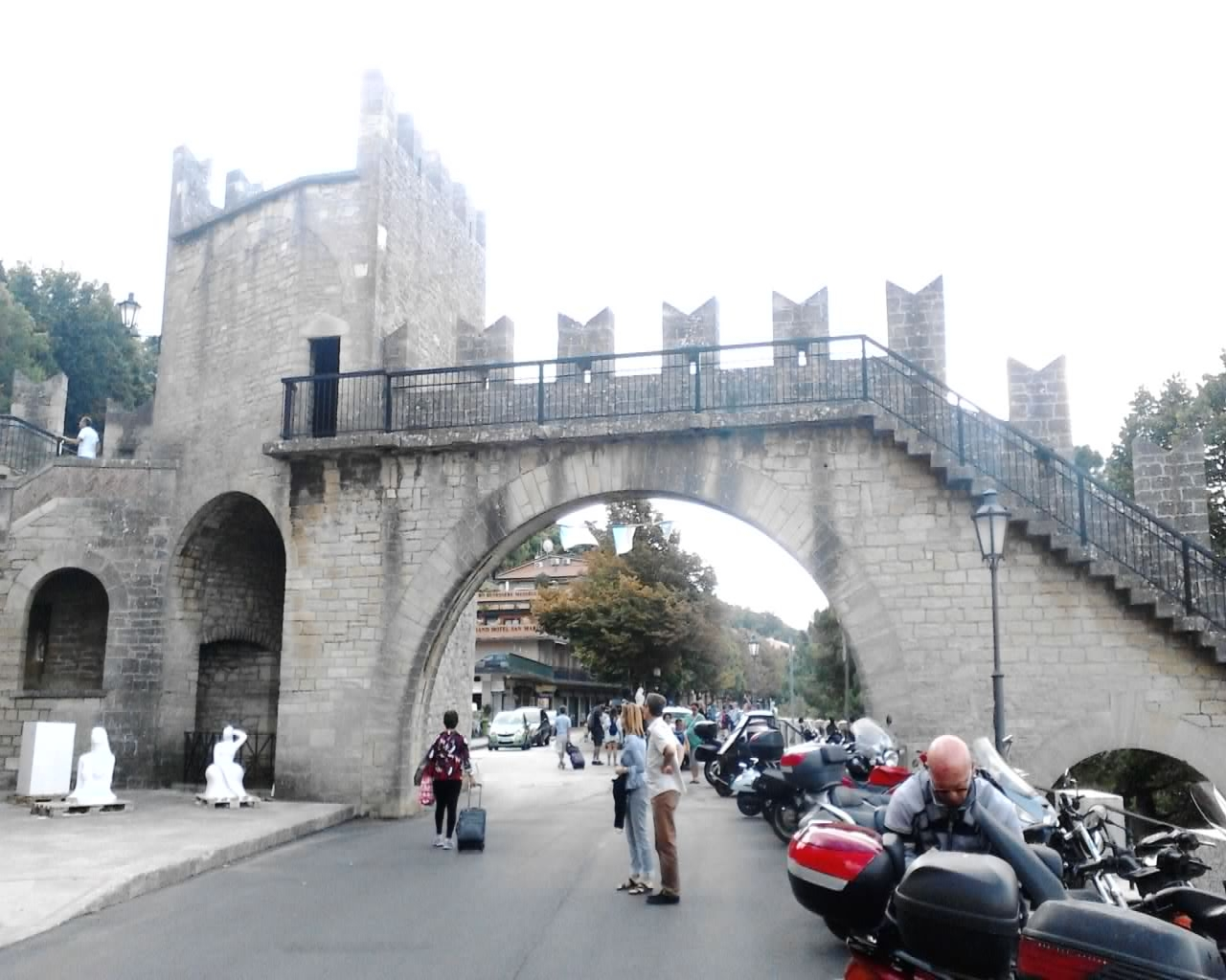 The walls in San Marino